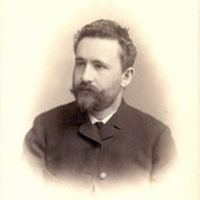 Emil Kraeelin